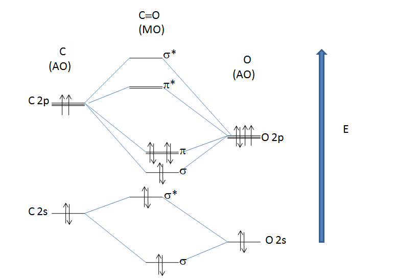 schematic diagram of molecular orbitals of carbon monoxide